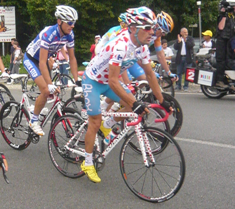 Anthony Charteau TDF 2010